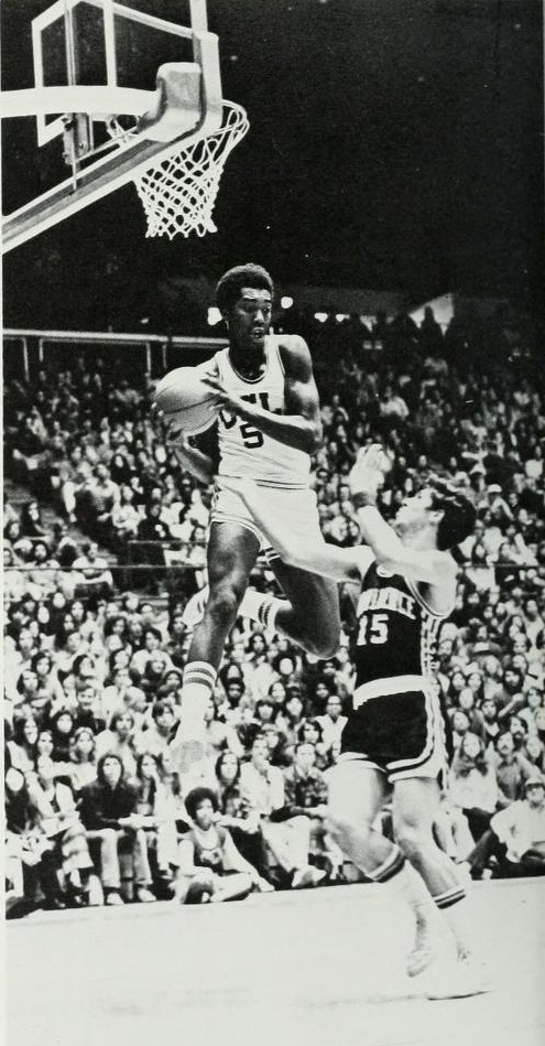 Photograph of UCLA basketball player Larry Farmer